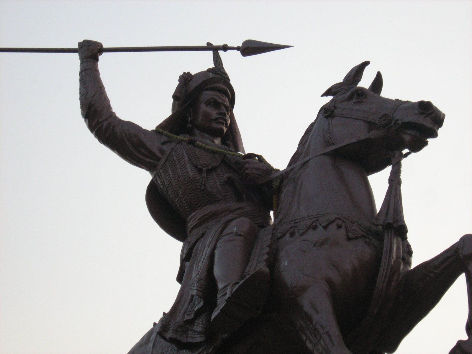 A memorial commemorating the Great Peshwa Bajirao I (in office 1720-1740 CE). The memorial is located at Shaniwar Wada (Shaniwar Palace) in the town of Pune, India. Bajirao I was an 18th century Indian Premier; Statesman; General and was principal in expanding Maratha Kingdom on a national scale subduing the Mughal Empire. Titles, Styles, and Honors: Pradhanpant Shreemant Bajirao Ballal (powerful noble) Peshwa (aka Bajirao the First) (nickname: Rannmard Bajirao; Rau) with the styles of His Highness (prospectively); the Peshwa (prime minister/first minister) of Maratha India; de facto chief of all Maratha dominions; the foremost minister and chief general of the supreme Maratha Emperor (Chhatrapati)